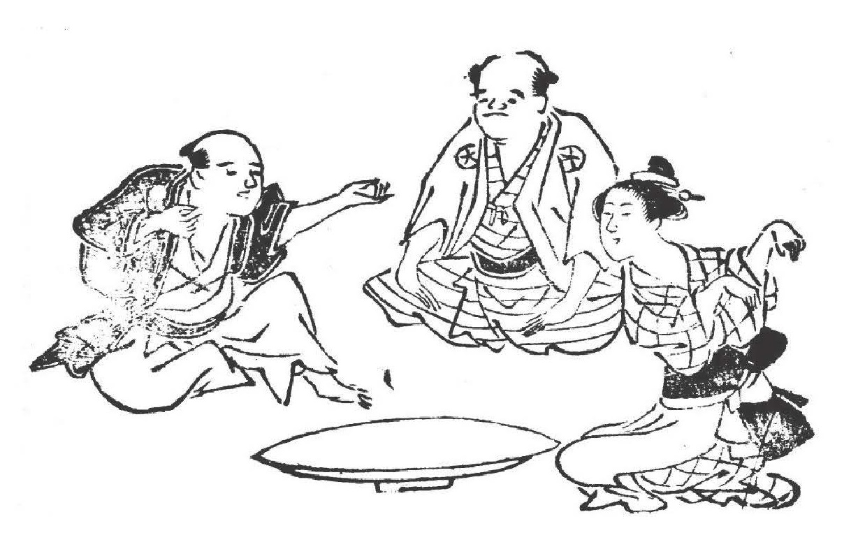 Representation of three people playing kitsune-ken (fox-ken), an early Japanese rock-paper-scissor or sansukumi-ken game. Published in the Genyoku sui bento in 1774. From left to right: Hunter (猟師 ryōshi), village head (庄屋 shōya), and fox (狐 kitsune). The fox defeats the village head, the village head defeats the hunter, and the hunter defeats the fox.